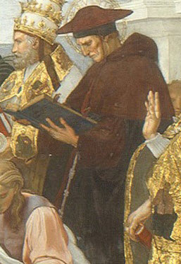 Cardinal Marco Vigerio della Rovere. Detail from Raphael's Disputation of the Holy Sacrament